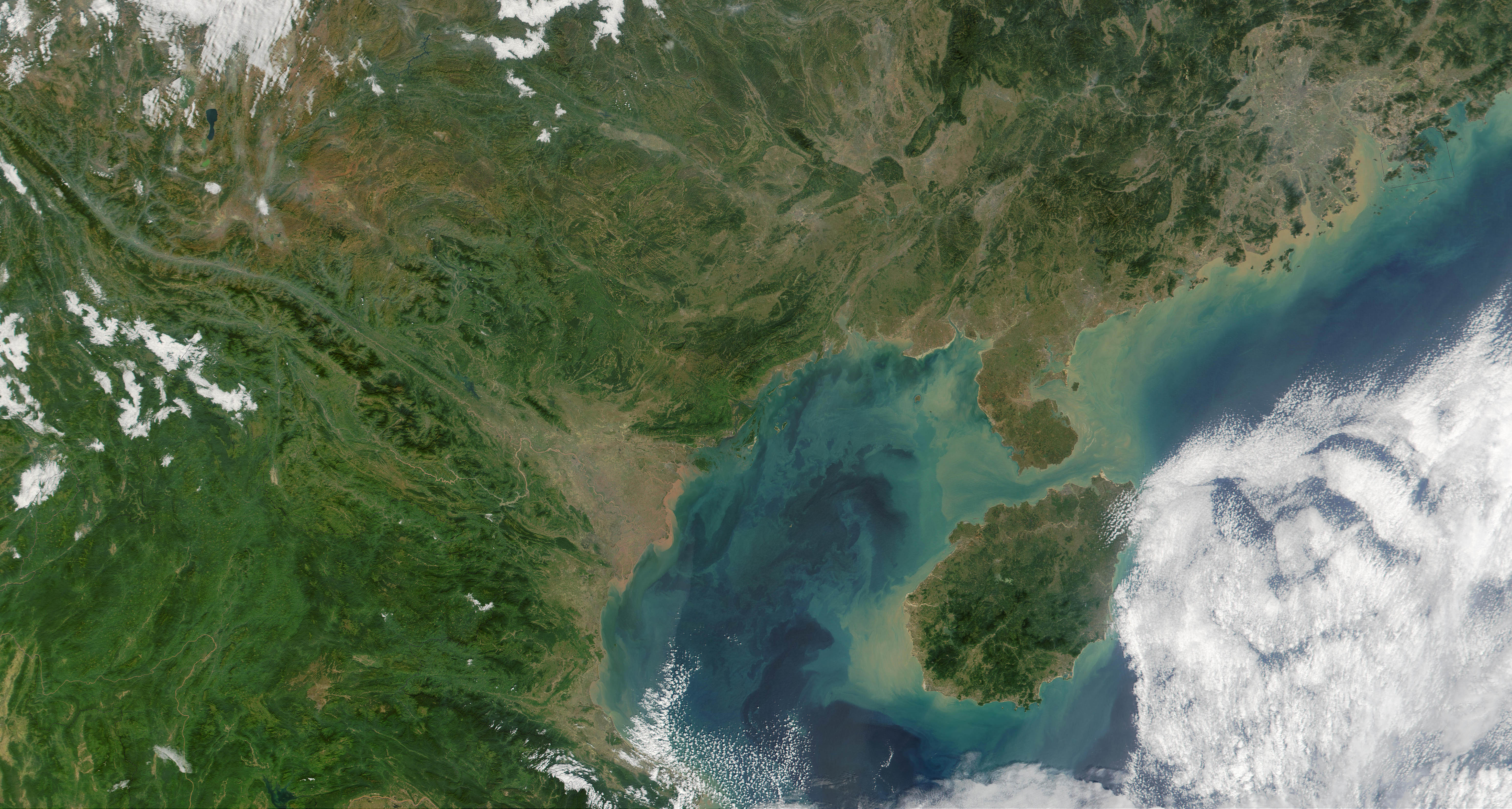 Satelite image of Gulf of Tonkin.